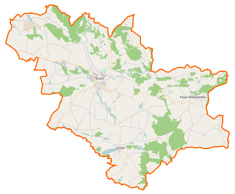 Map of Powiat śremski, Poland This map of Powiat śremski was created from OpenStreetMap project data, collected by the community. This map may be incomplete, and may contain errors. Don't rely solely on it for navigation. Border coordinates52.205116.7763←↕→17.340851.9189